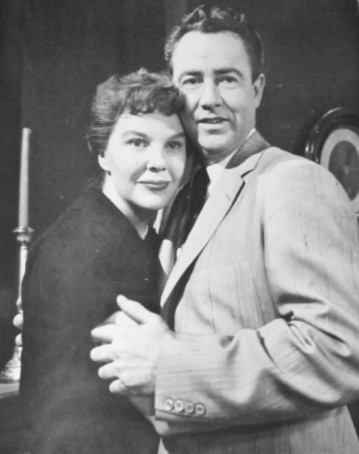 Publicity photo of Mary Stuart and Terry O'Sullivan as Joanne and Arthur Tate on Search for Tomorrow.